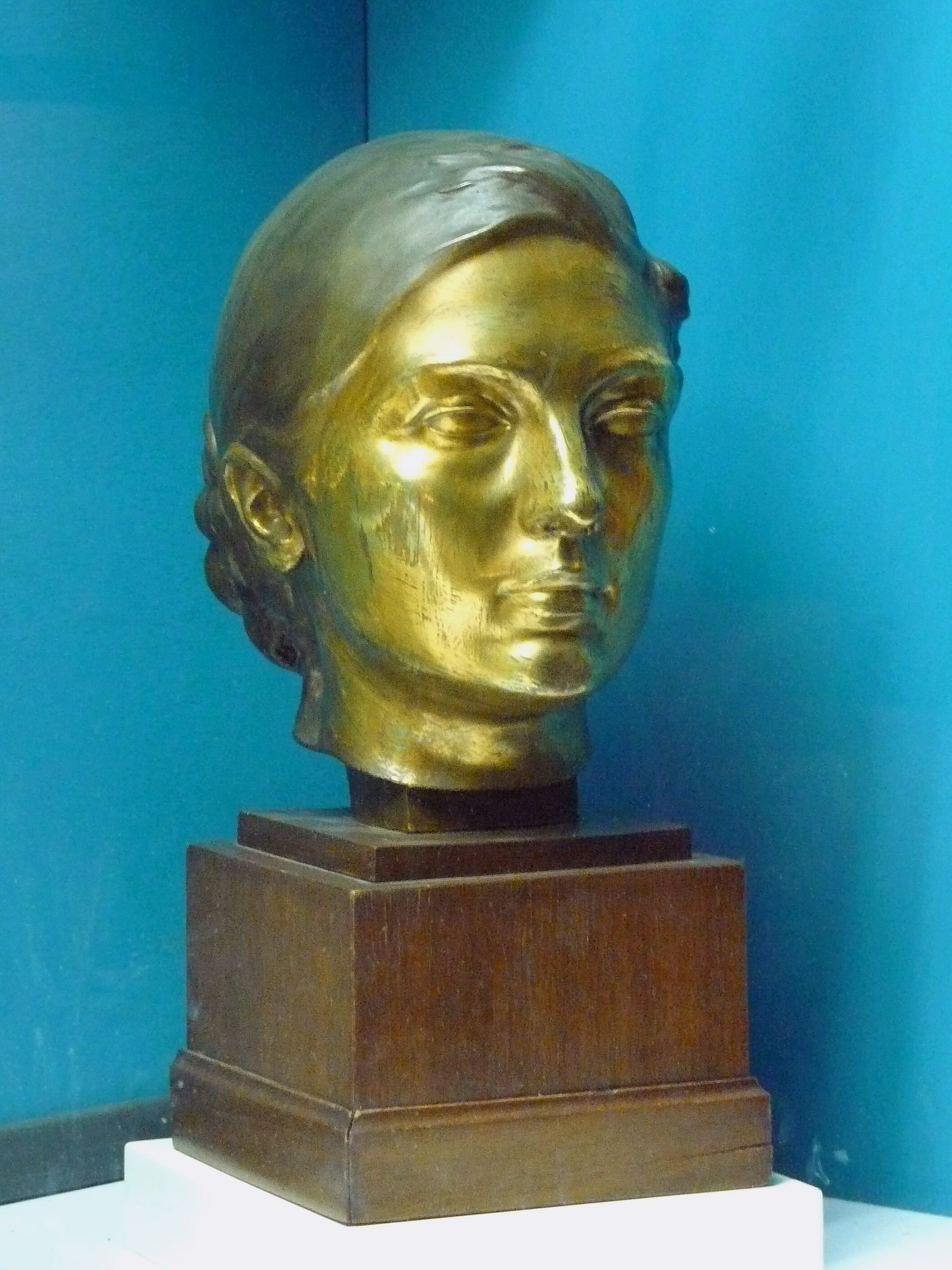 Bust of Jane Poupelet, by Lucien Schnegg